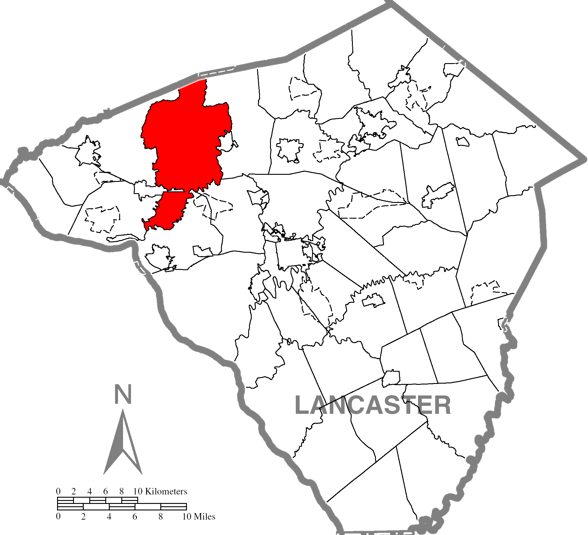 Highlighted Lancaster County map of Rapho Township.